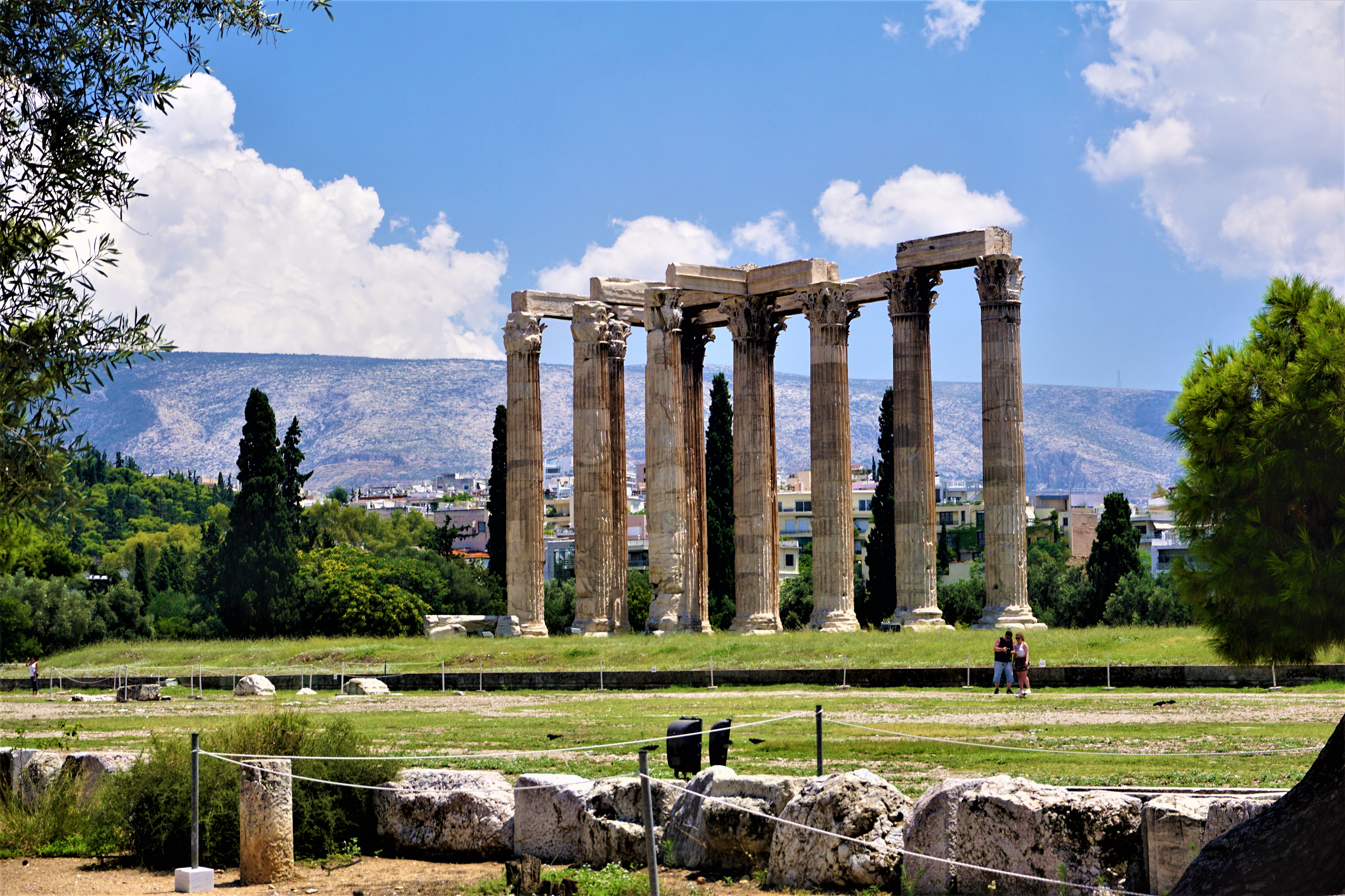 Temple of Olympian Zeus, Athens - Joy of Museum - for details